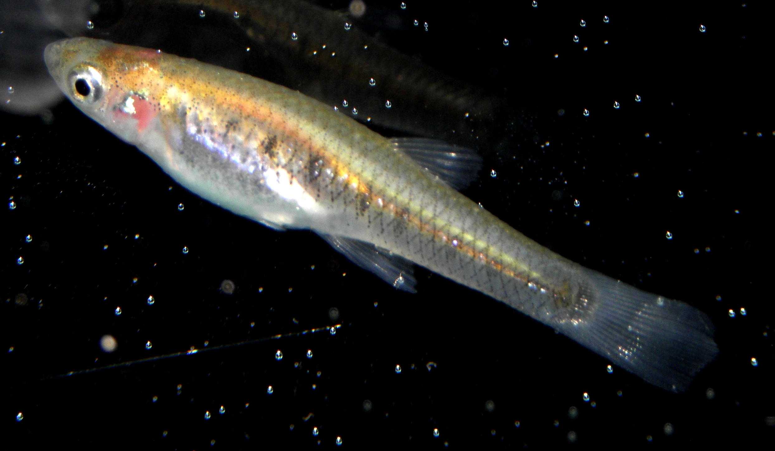 Ten spotted live-bearer -female- (Cnesterodon decemmaculatus).